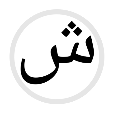 HS Letter (arabic alphabet)